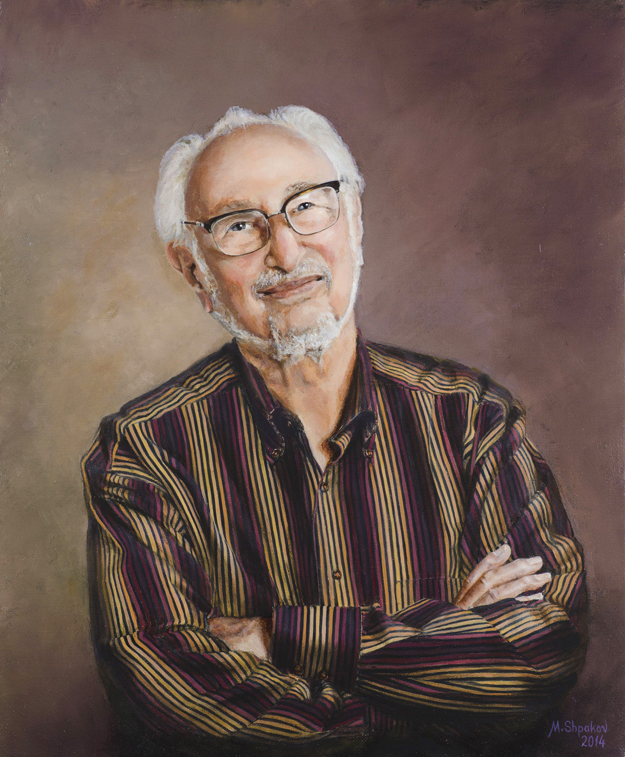 Portrait of Ivan Roitt FRS by Michael Shpakov, oil on canvas, 15 x 18 inch